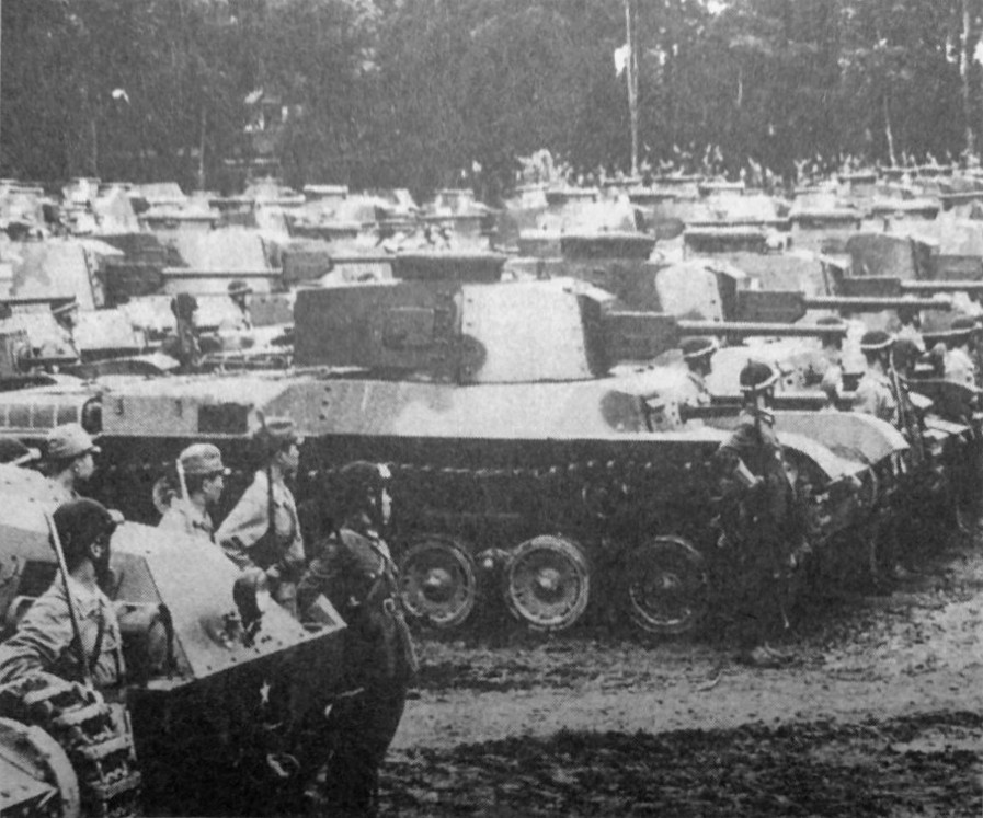 Imperial Japanese Army Type 1 medium tank Chi-He.